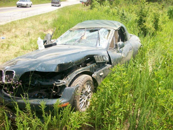 This is what a Z3 looks like after being rolled in a ditch.